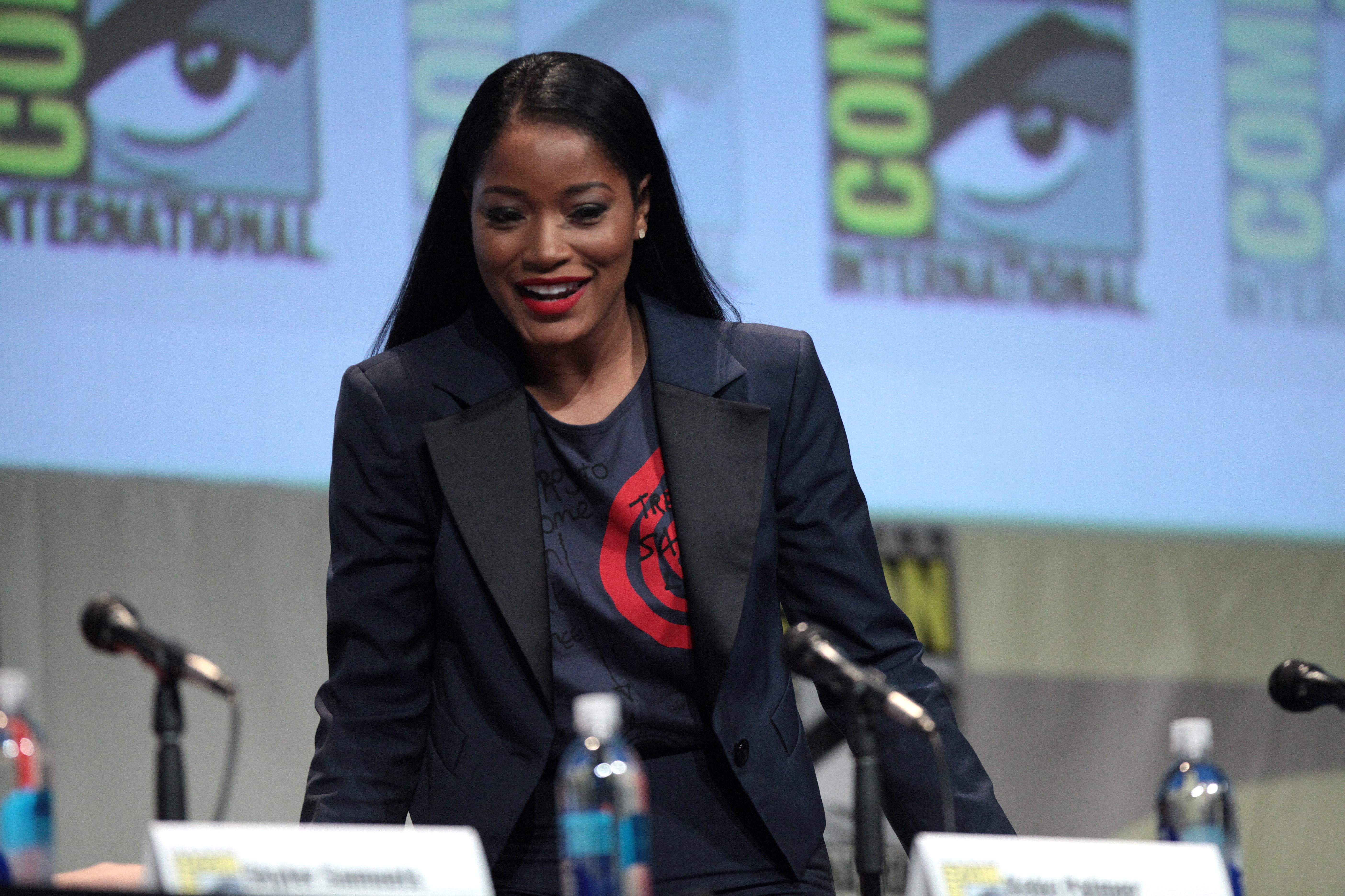 Keke Palmer Comic Con 2015 by Gage Skidmore